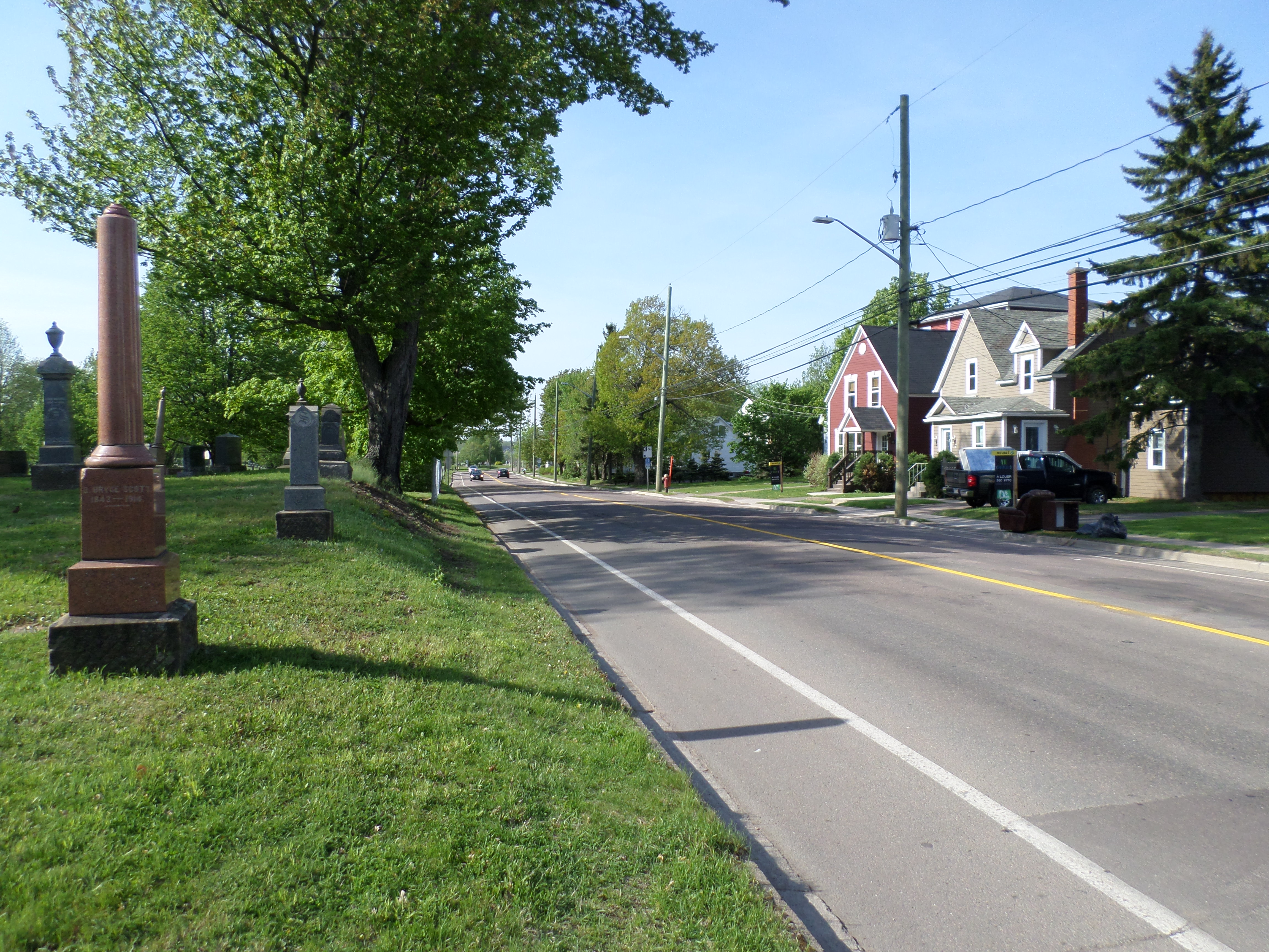 Sunny Brae neighborhood of Moncton